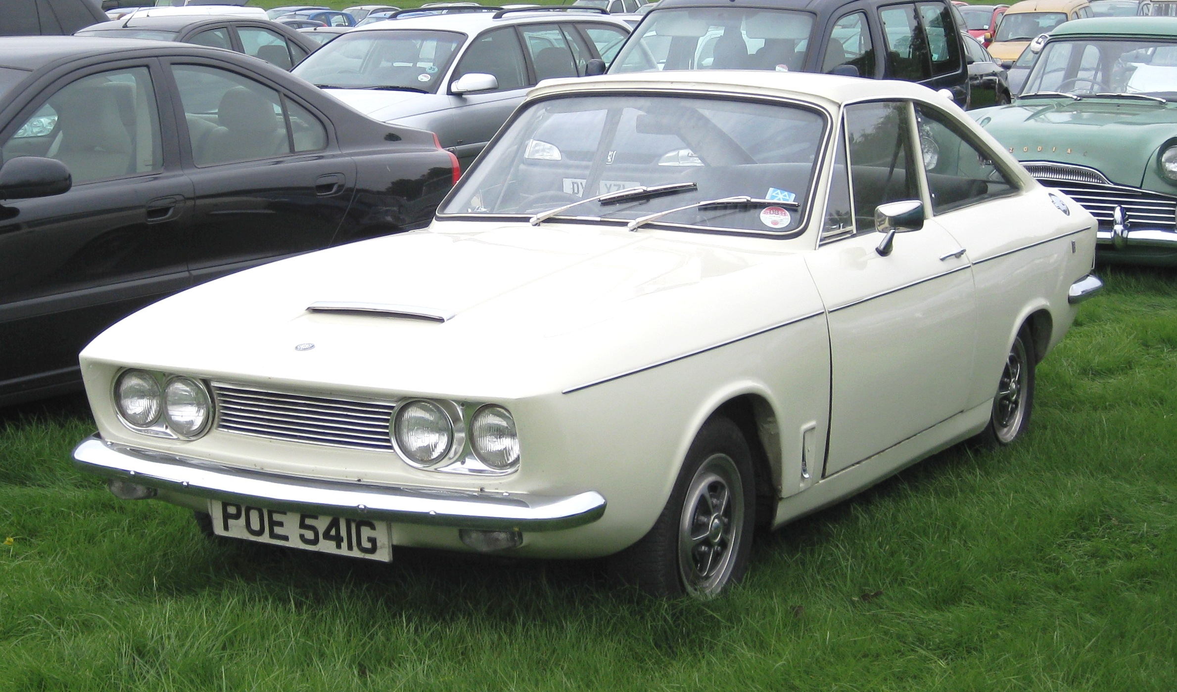 Bond Equipe 2 litre at Weston Park Transport Fair